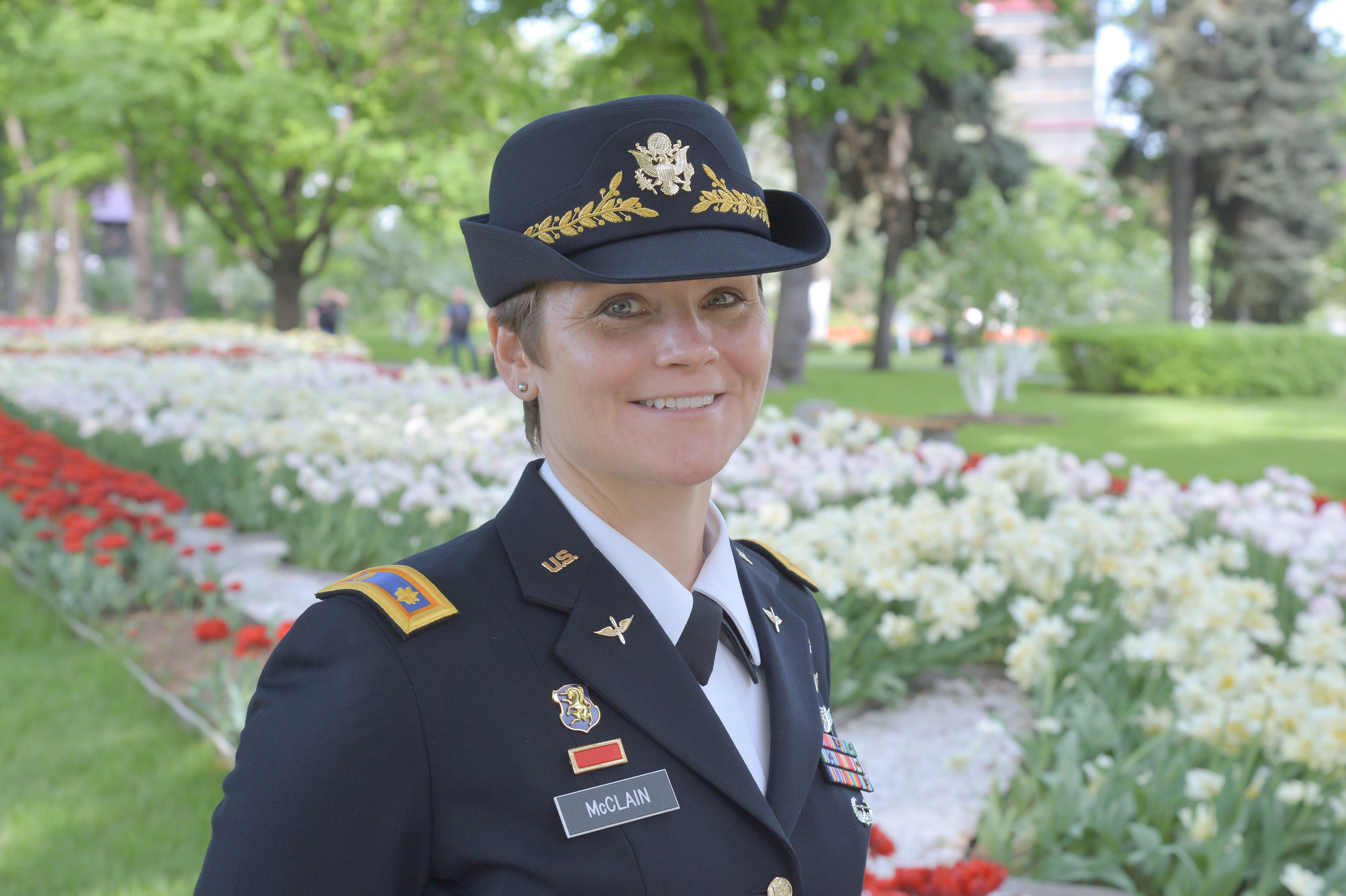 Expedition 56 backup crew member Anne McClain of NASA poses for pictures in the Kremlin gardens in Moscow May 14 as part of traditional pre-launch activities. McClain is serving as a backup to the prime crew, Serena Auñón-Chancellor of NASA, Sergey Prokopyev of Roscosmos and Alexander Gerst of the European Space Agency, who will launch June 6 from the Baikonur Cosmodrome in Kazakhstan on the Soyuz MS-09 spacecraft for a six month mission on the International Space Station.